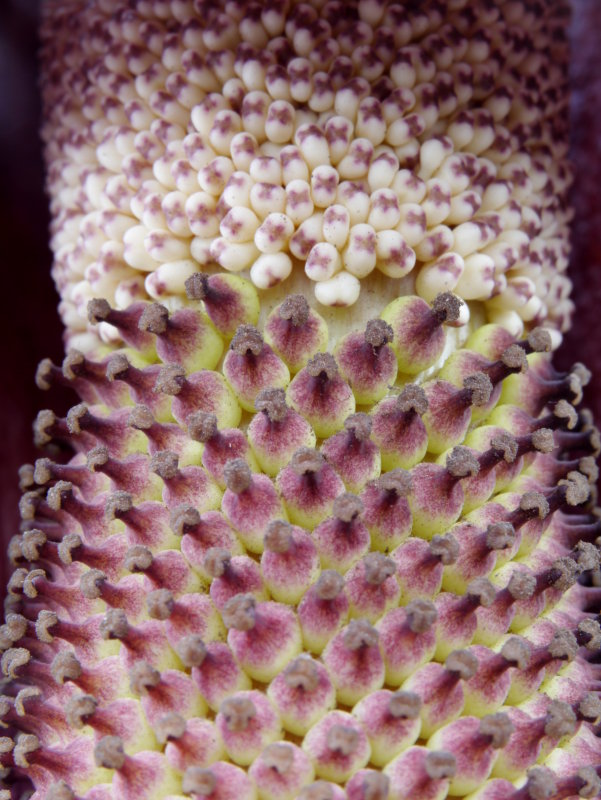 The bottom two-thirds of the image contains the female flowers, which were receptive at the time of photography. The top third contains the male flowers, which release pollen on the following day.